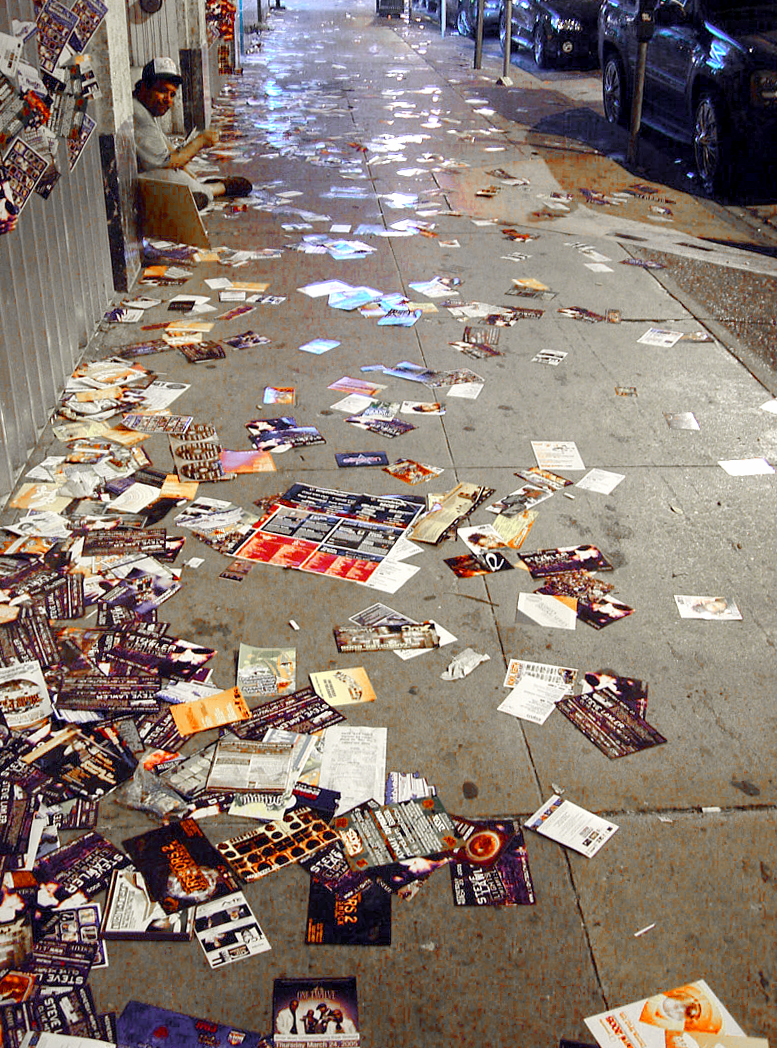 Flyers litter the street in Miami. Some of the flyers identifiable from the photograph include: A flyer advertising a Winter Music Conference 2005 drum & bass event called Tremors 2: The Aftershock (Tue., 2005-03-22) organised by Skynet Recordings.[1] See the flyer's: obverse, reverse. Rather interestingly, the flyer is never seen dropped the obverse side-top in this picture. A flyer promoting Steve Lawler, a British DJ.